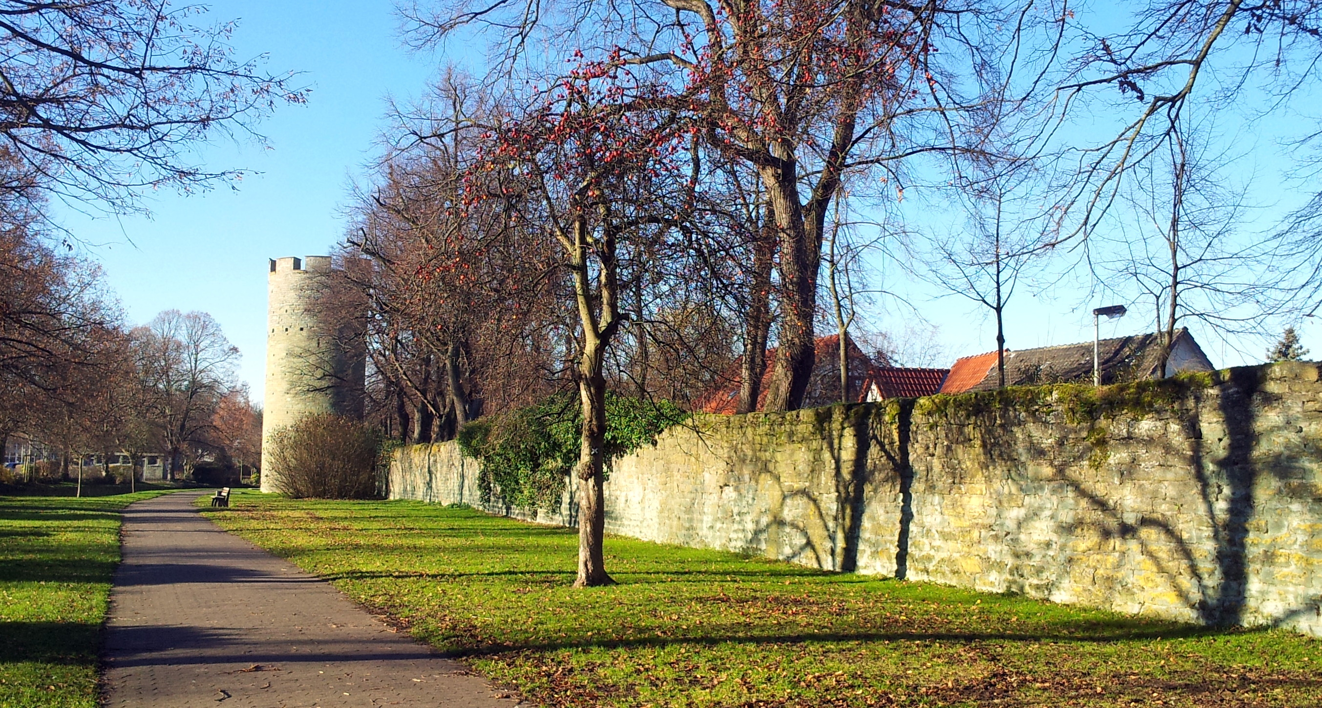 City wall of Soest (1180) with defense tower.